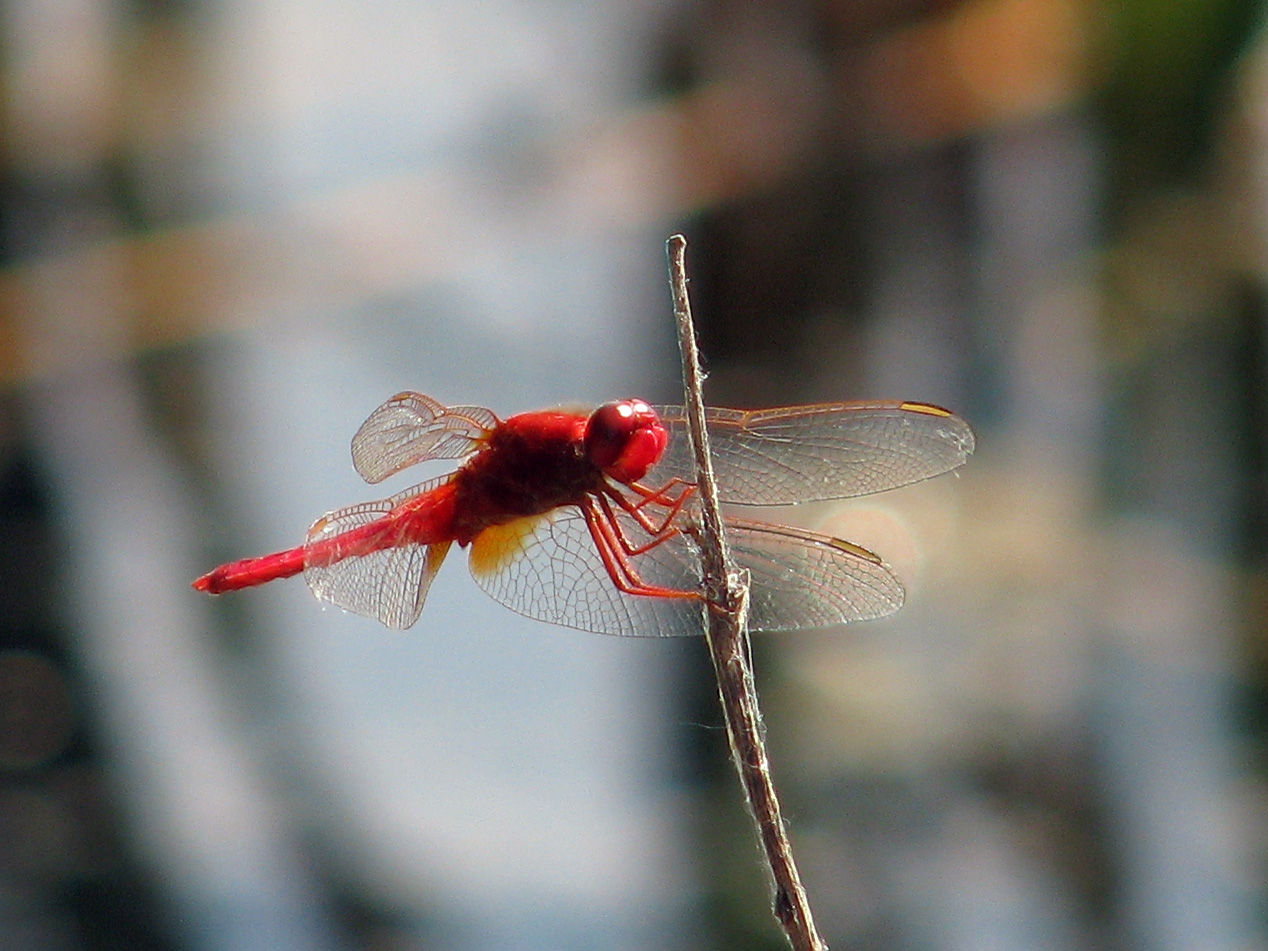 Crocothemis erythraea - Milotice (písečný rybník), 06/2008